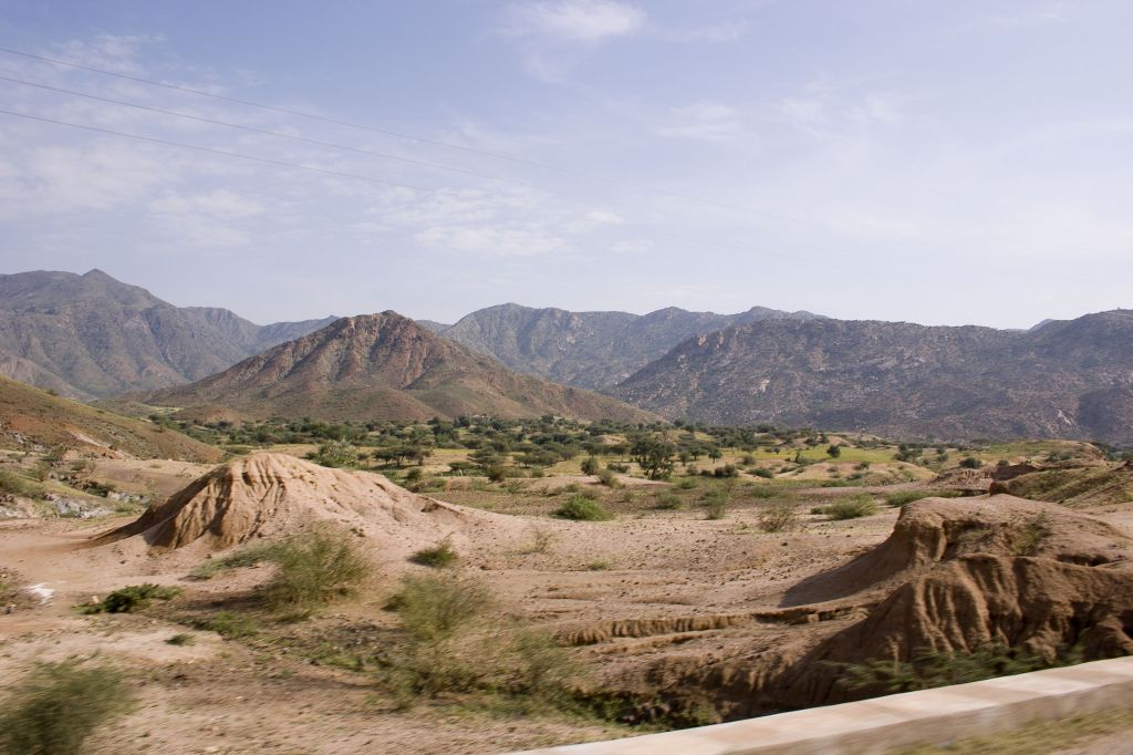 Battle of Keren Battlefield - Mountains around Keren